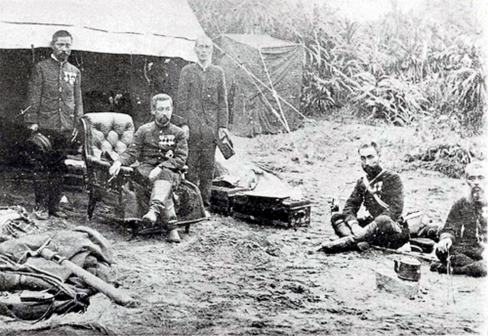 Photograph of Prince Kitashirakawa Yoshihisa and his staff at Audi, northern Taiwan, end-May 1895